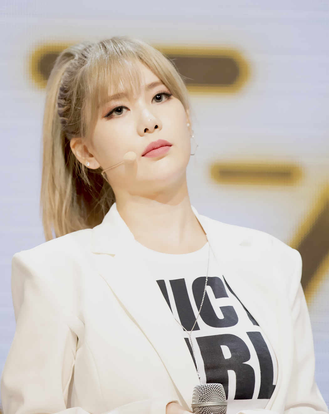 170614 'What's My Name' Showcase